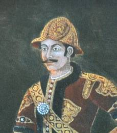 From: Prabhakar SJB Rana et.al.: Nepal, Art et Civilisation des Ranas. Genève 2002. The pictures apparently from the same album (undated, unspecified) in the collection of Gautam SJB Rànà.